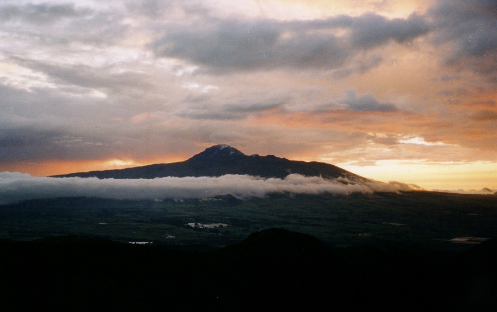 Volcano Corazon as seen from Ruminahui